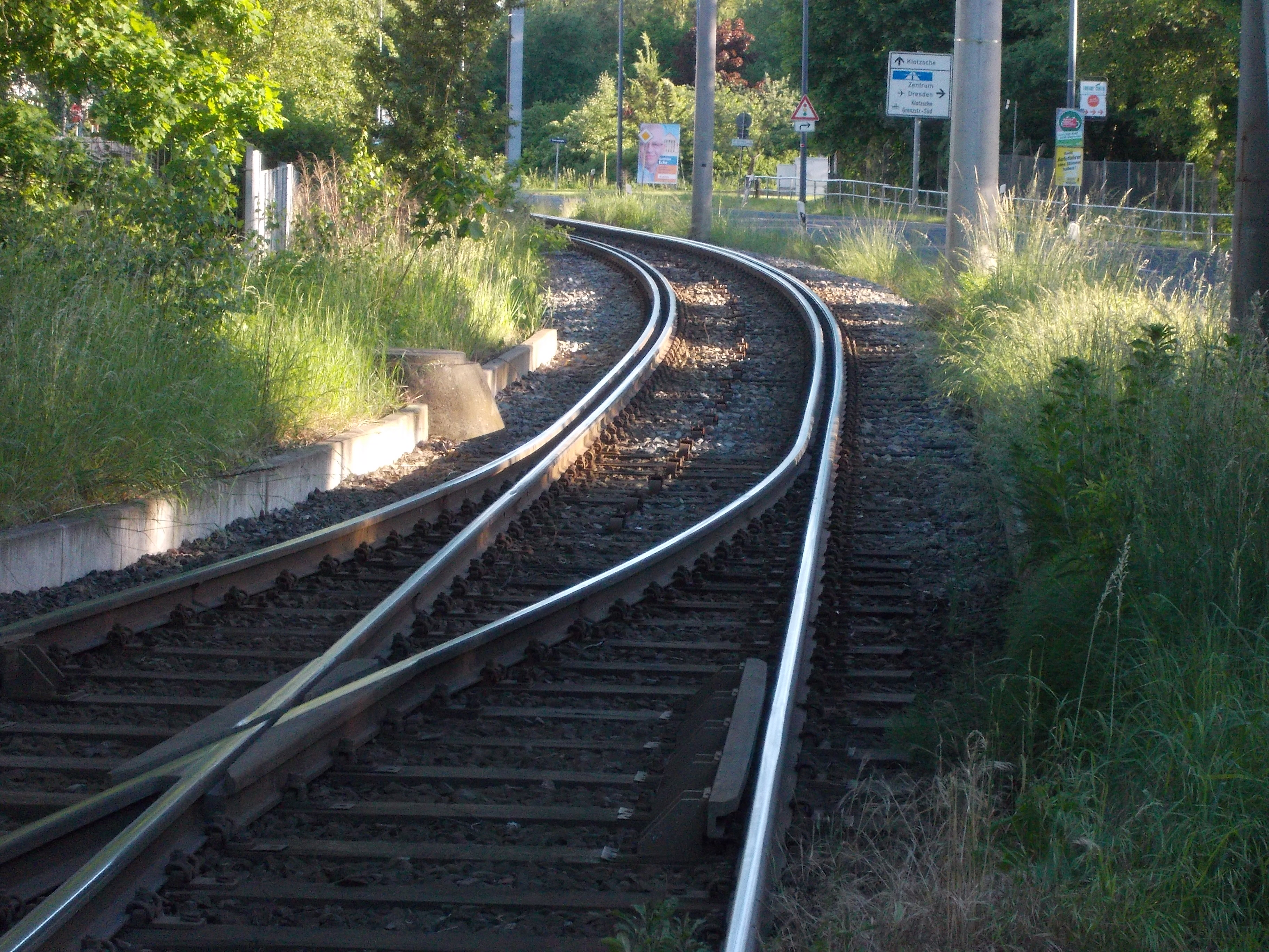 Tram tracks in Dresden-Klotzsche south of Industriepark Klotzsche stop (with a passing loop); the track continues with four rails to the next stop Arkonastraße, where another passing loop is located